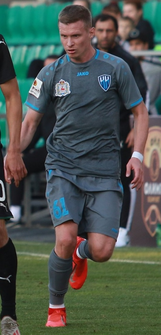 Aleksandr Stavpets with FC Nizhny Novgorod in a game against FC Krasnodar-2.